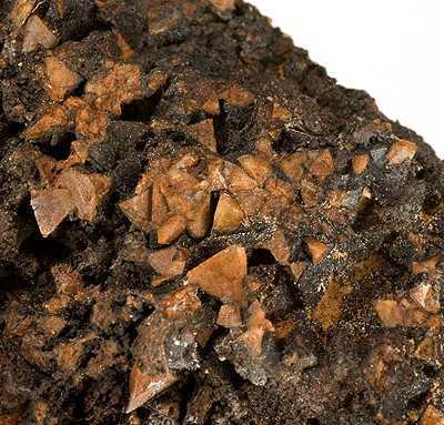 Zunyite Locality: Silver City, Tintic District, East Tintic Mts, Juab County, Utah, USA (Locality at ) Size: 5.5 x 5 x 3.5 cm. This strange silicate forms pyramid-shaped crystals that are sharp and unusual. Usually the species is gray to white in color from other locales but here show with brown-red color. This specimen is one of several obtained by breaking open a single larger vug donated to the museum in the early 1900s, and features many sharp crystals to 3 mm on all sides of the specimen. Ex. Philadelphia Academy of Sciences Collection.